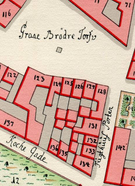 The street Tugthusporten seen on Gedde's district map of Copenhagen, Denmark. Now part of Niels Hemmingsens Gade